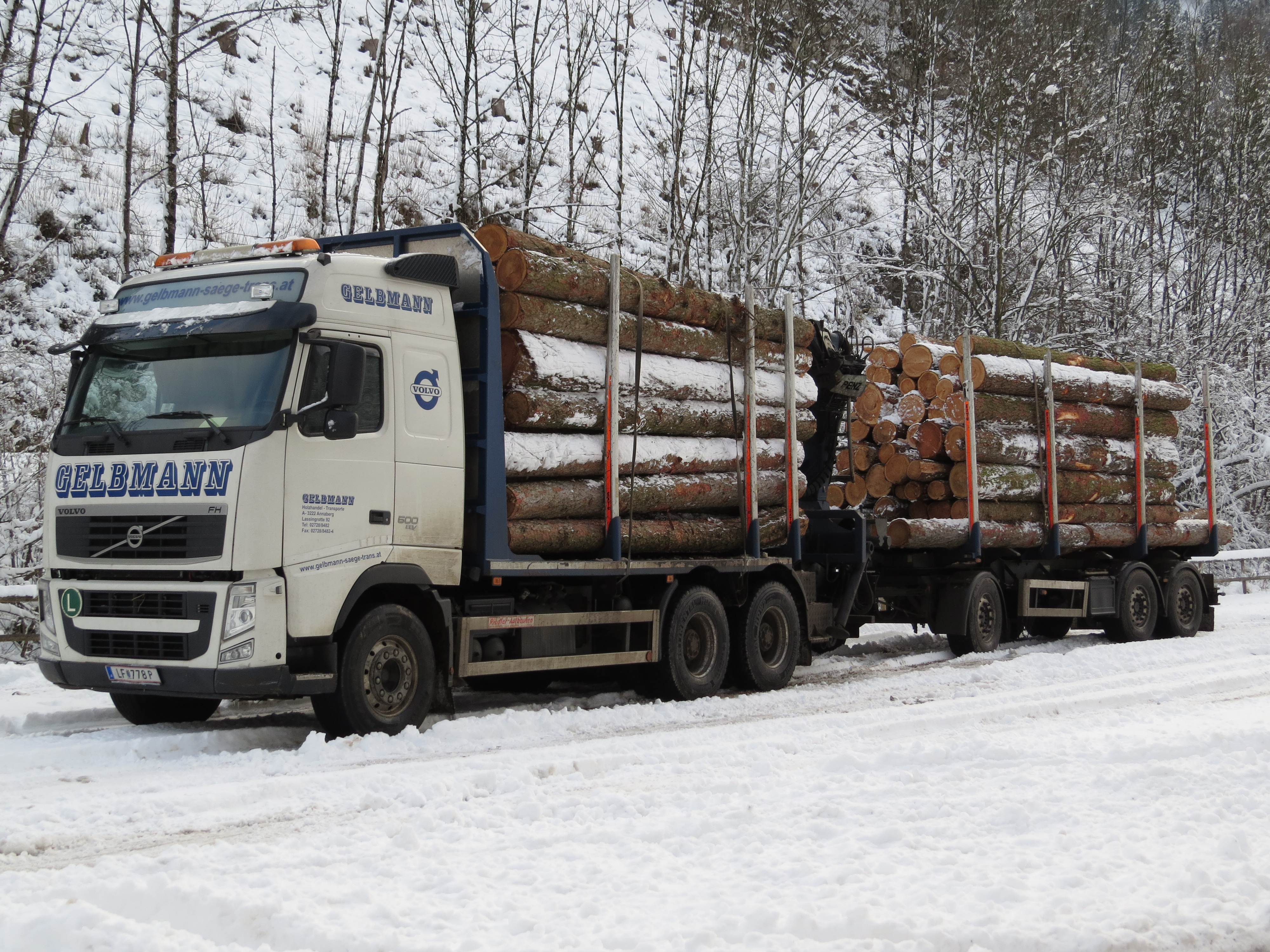 Volvo FH500 from Franz Gelbmann GmbH with wood near Laubenbachmühle, Frankenfels, Austria